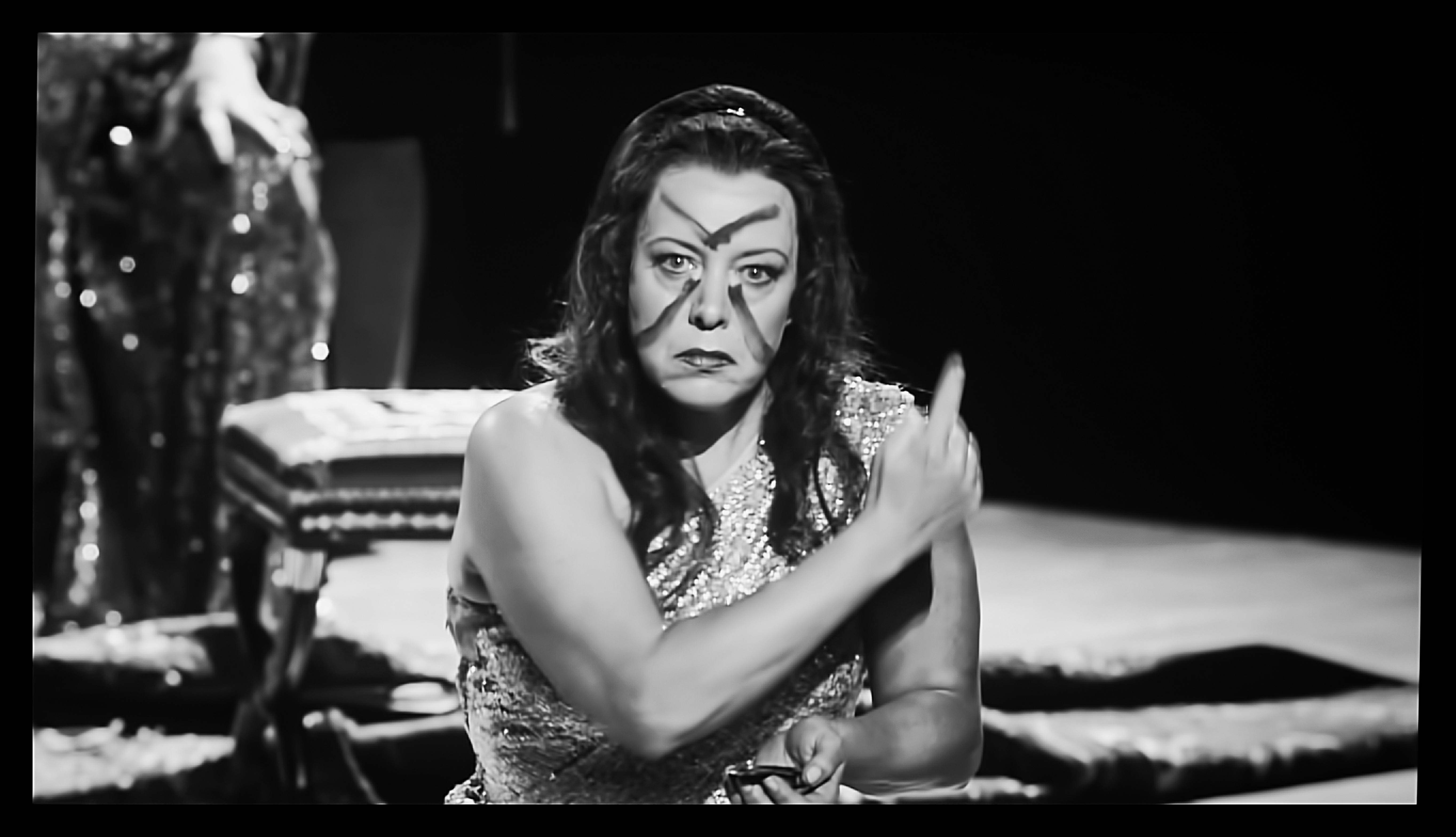 Salome at the Swedish Royal Opera December 2013